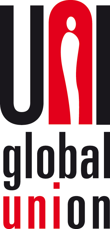 New logo of UNI global union